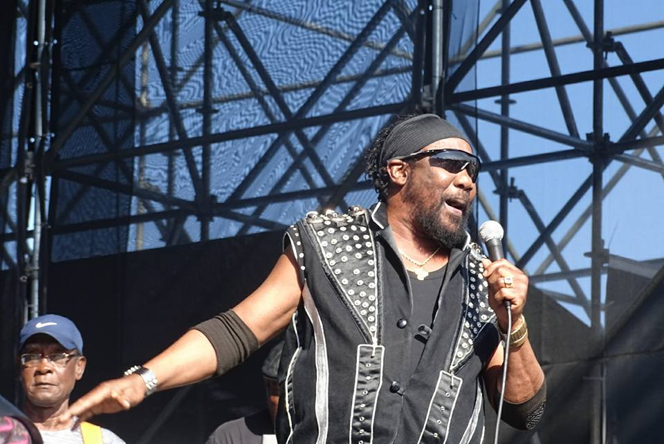 Toots and The Maytals performed at One Big Holiday 2018, Hard Rock Hotel & Casino Punta Cana, Dominican Republic after 5 years of requests to play the event.